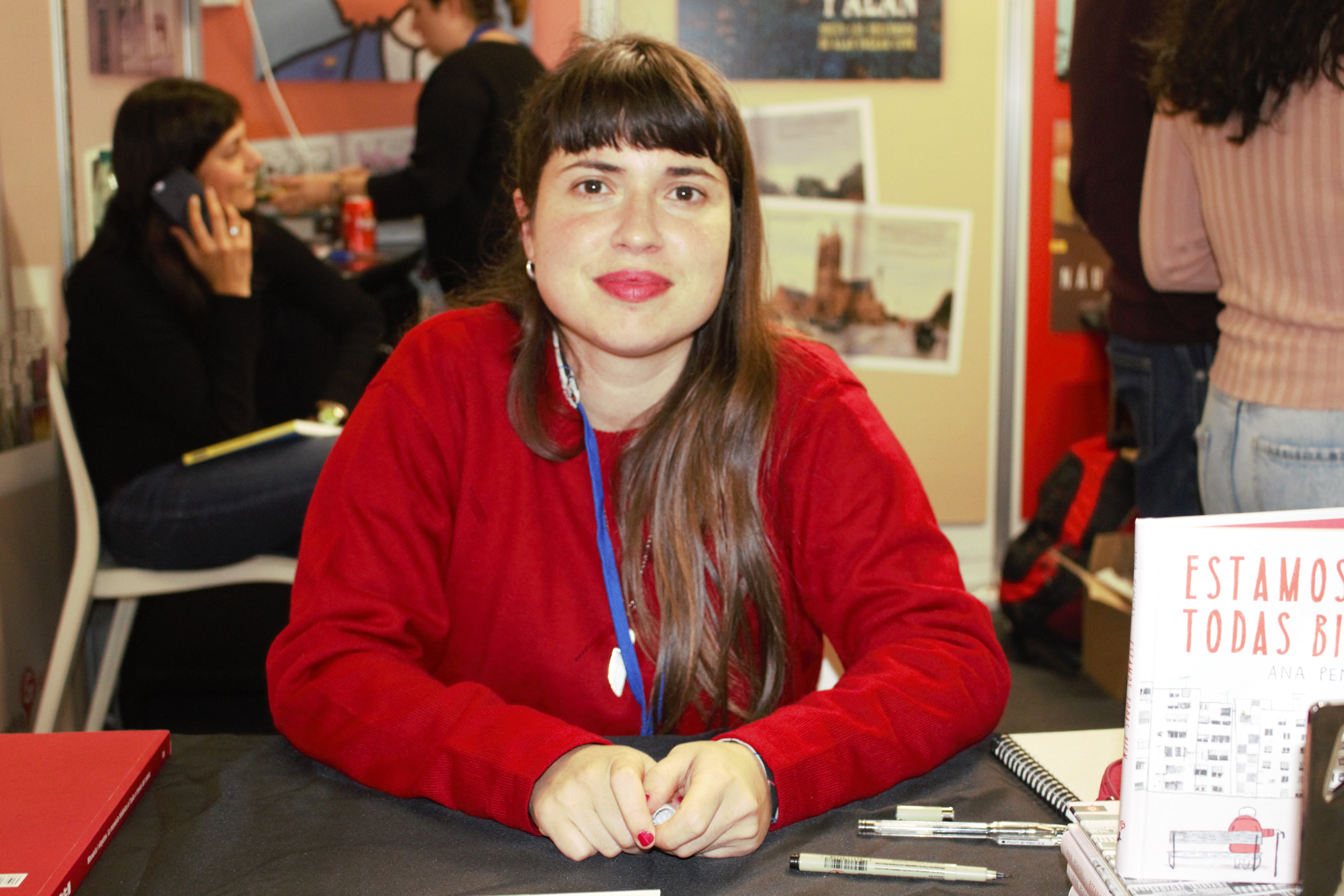 The comic autor Ana Penyas, who won the prize to the Best New Talent for her comic "Estamos todas bien". Barcelona International Comic Fair 2018.